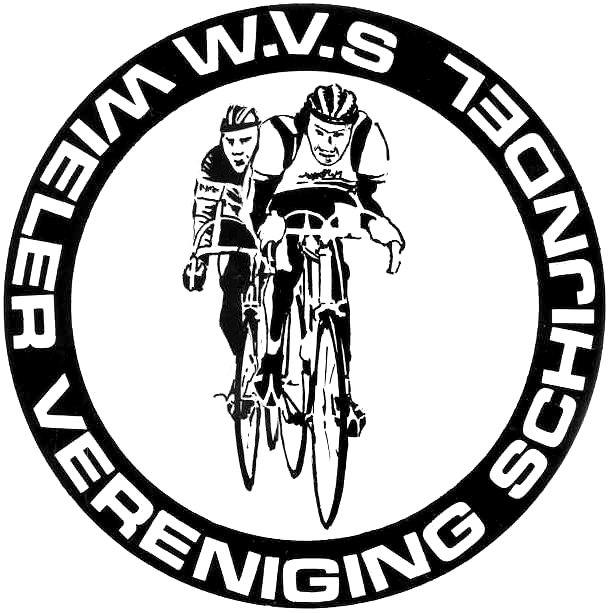 logo WV Schijndel